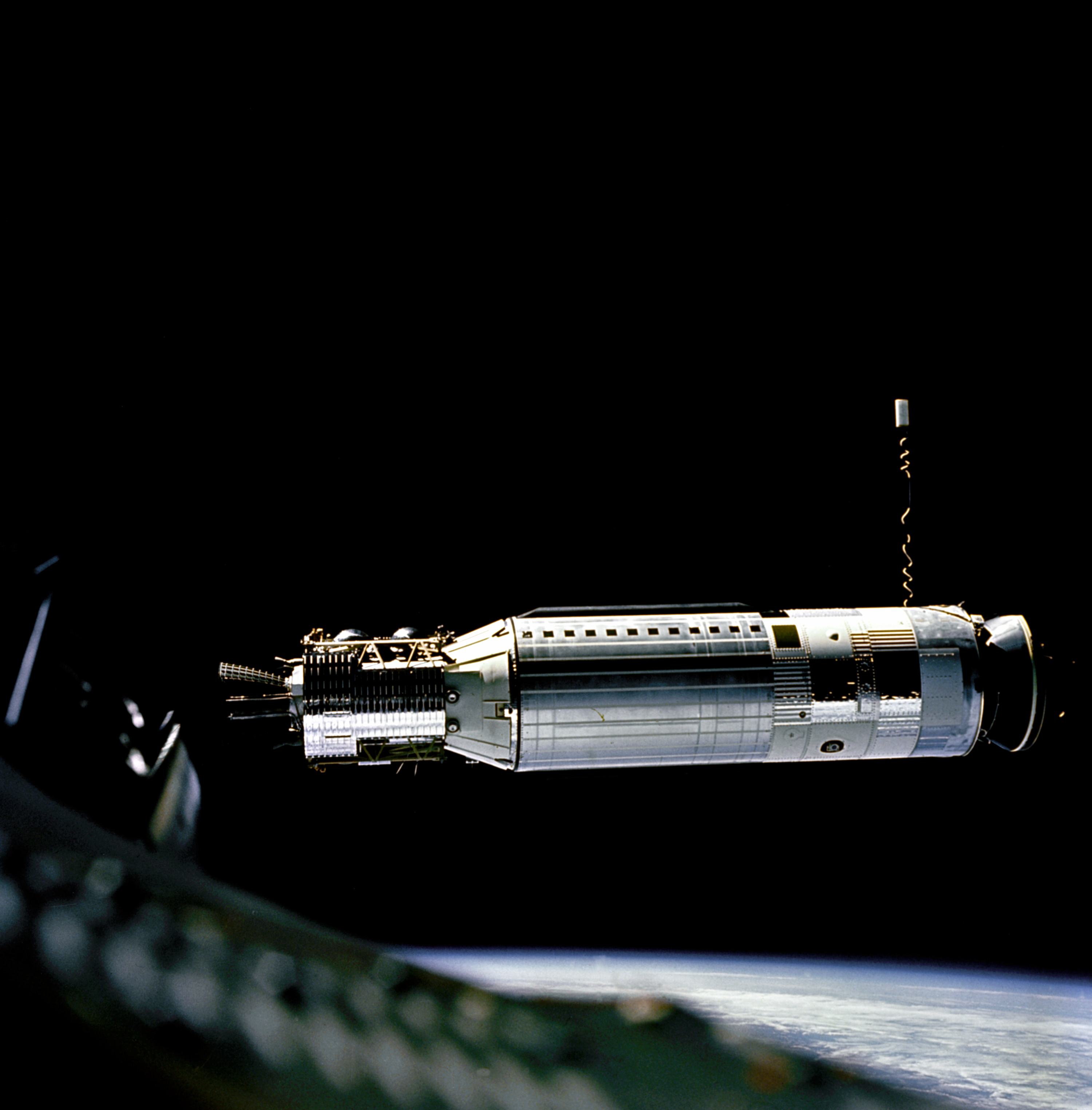 A profile view of the Agena Docking Target Vehicle as seen from the Gemini 8 spacecraft during rendezvous in space.